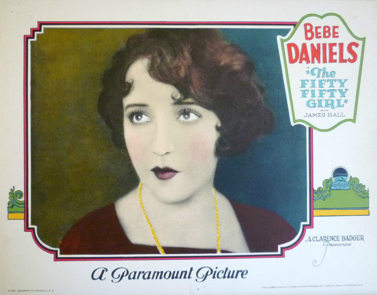 Lobby card for the American comedy film The Fifty-Fifty Girl (1928). There are no copyright marks on the item. At lower left is 3728 Country of origin USA. At lower right is This lobby display leased from Paramount Famous Players Lasky Corporation.